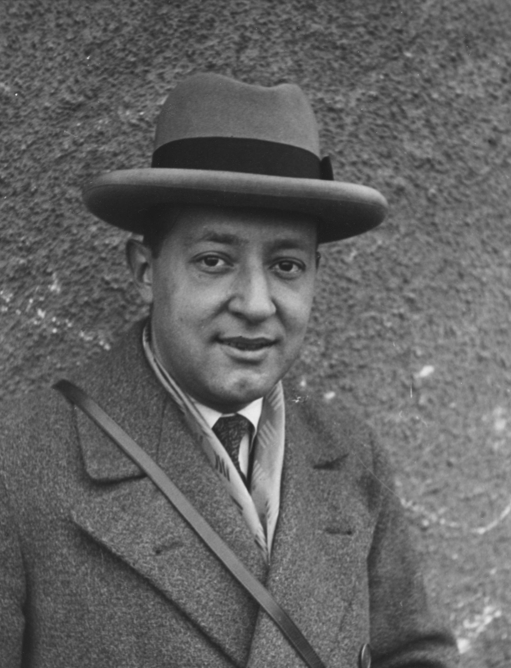 Konrad Heiden, portrait with hat, detail, photo from his legacy